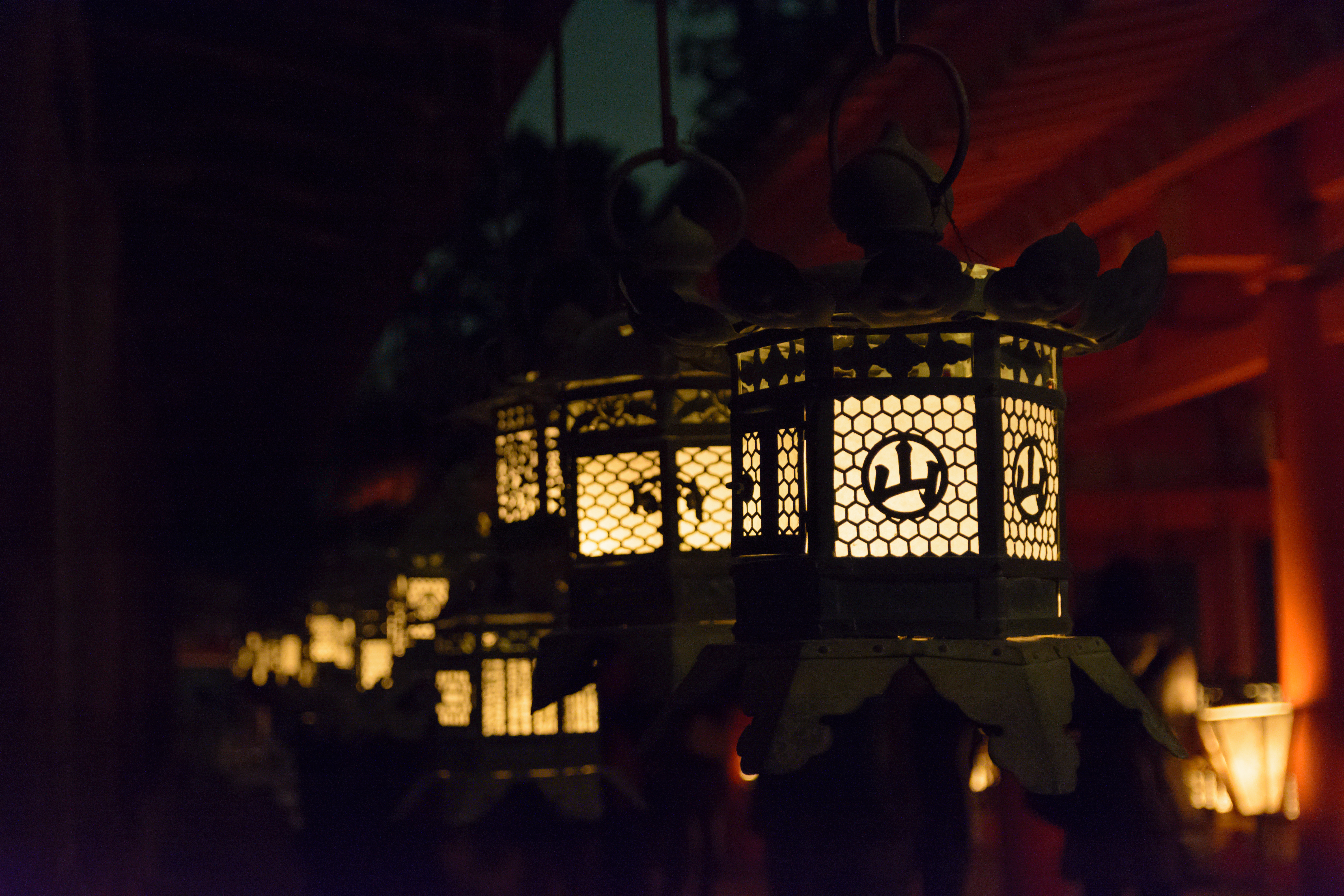 The hanging lantern in the Setsubun Mantoro Festival at Kasuga-taisha.